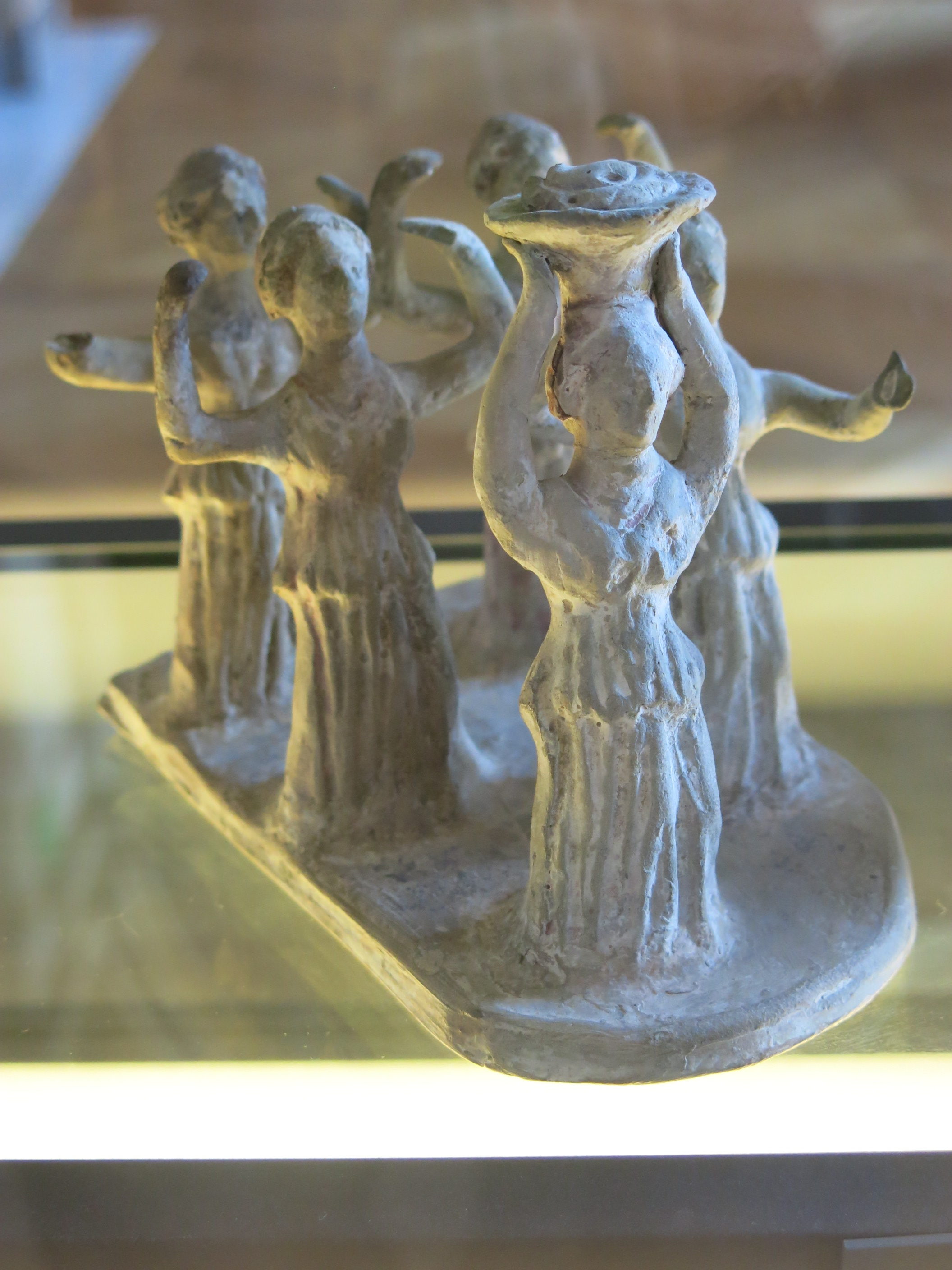 Group of dancing women following a canephore. Canossa. 3rd century BC. Louvre museum (Paris, France).